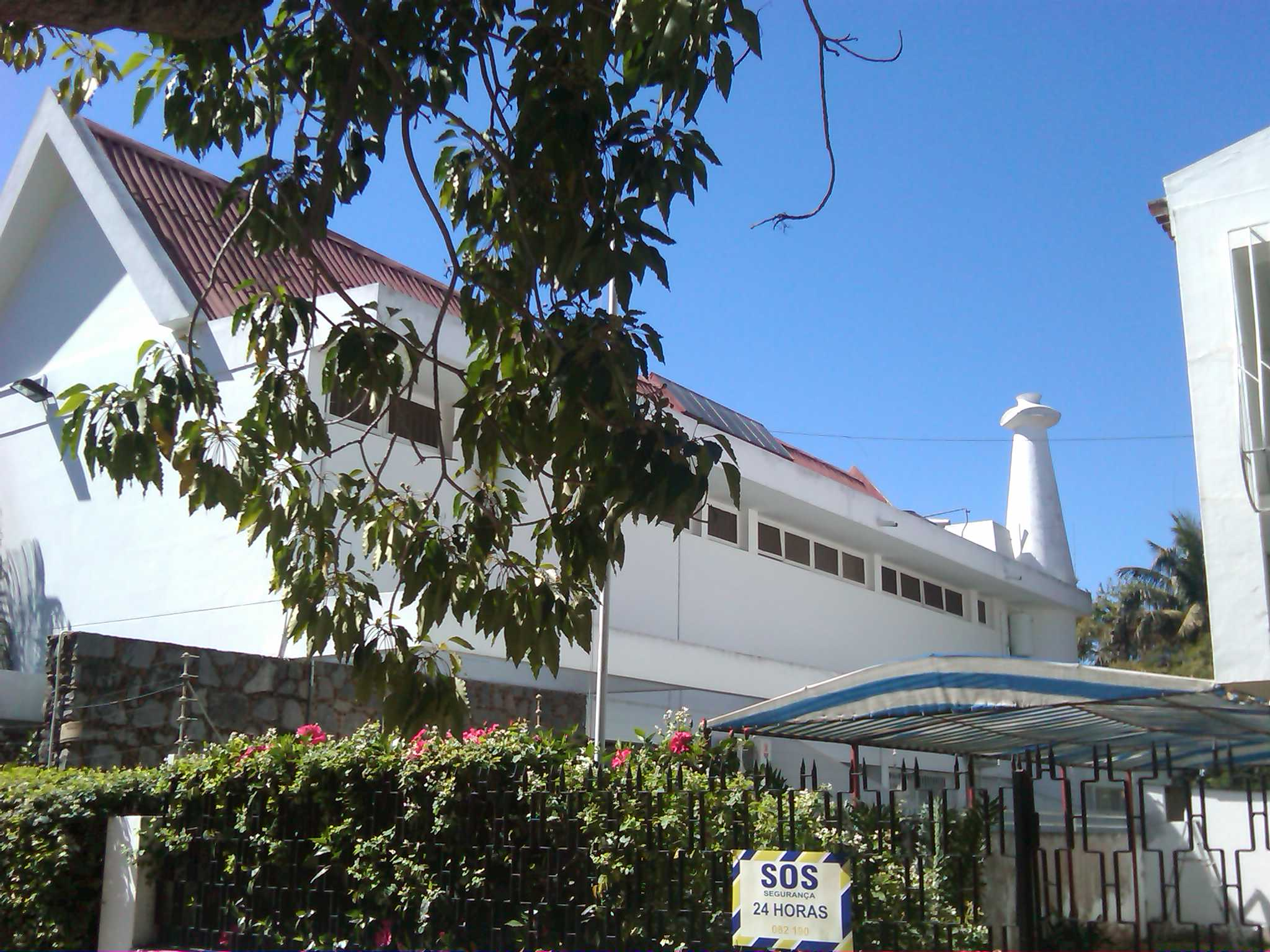 Casas das Três Girafas, Maputo, Mozambique